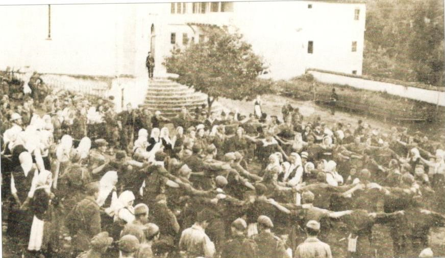 People celebrating ASNOM on 2.8.1944